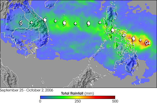 After forming just east of the central Philippines, Tropical Storm Xangsane (“elephant” in Lao) intensified into a typhoon and battered the central Philippines with high winds and heavy rains on September 27 and 28, 2006. At least 110 people were reported killed, with many still missing as a result of flooding and mudslides brought on by the storm as of early October. After passing through the Philippines and out into the South China Sea, Xangsane headed for the central coast of Vietnam, where it made landfall on October 1. The storm caused widespread damage and flooding in Vietnam, and at least 59 people were reported to have died there as a result. This image shows rainfall totals estimated in part from data collected by the Tropical Rainfall Measuring Mission satellite (TRMM). TRMM data are part of the near-real-time Multi-satellite Precipitation Analysis (MPA) at NASA Goddard Space Flight Center, which monitors rainfall over the global Tropics. MPA rainfall totals for Southeast Asia for September 25-October 2, 2006, are shown in the image. Storm symbols mark Xangsane’s path. Rainfall totals of over a foot are shown over Samar in the east-central Philippines (red areas). A broad area of 4- to 8-inch totals (green) stretches from the central Philippines to the coast of Vietnam. TRMM was placed into service in November of 1997. From its low-earth orbit, TRMM has been measuring rainfall over the global Tropics using a combination of passive microwave and active radar sensors. TRMM is a joint mission between NASA and the Japanese space agency, JAXA.